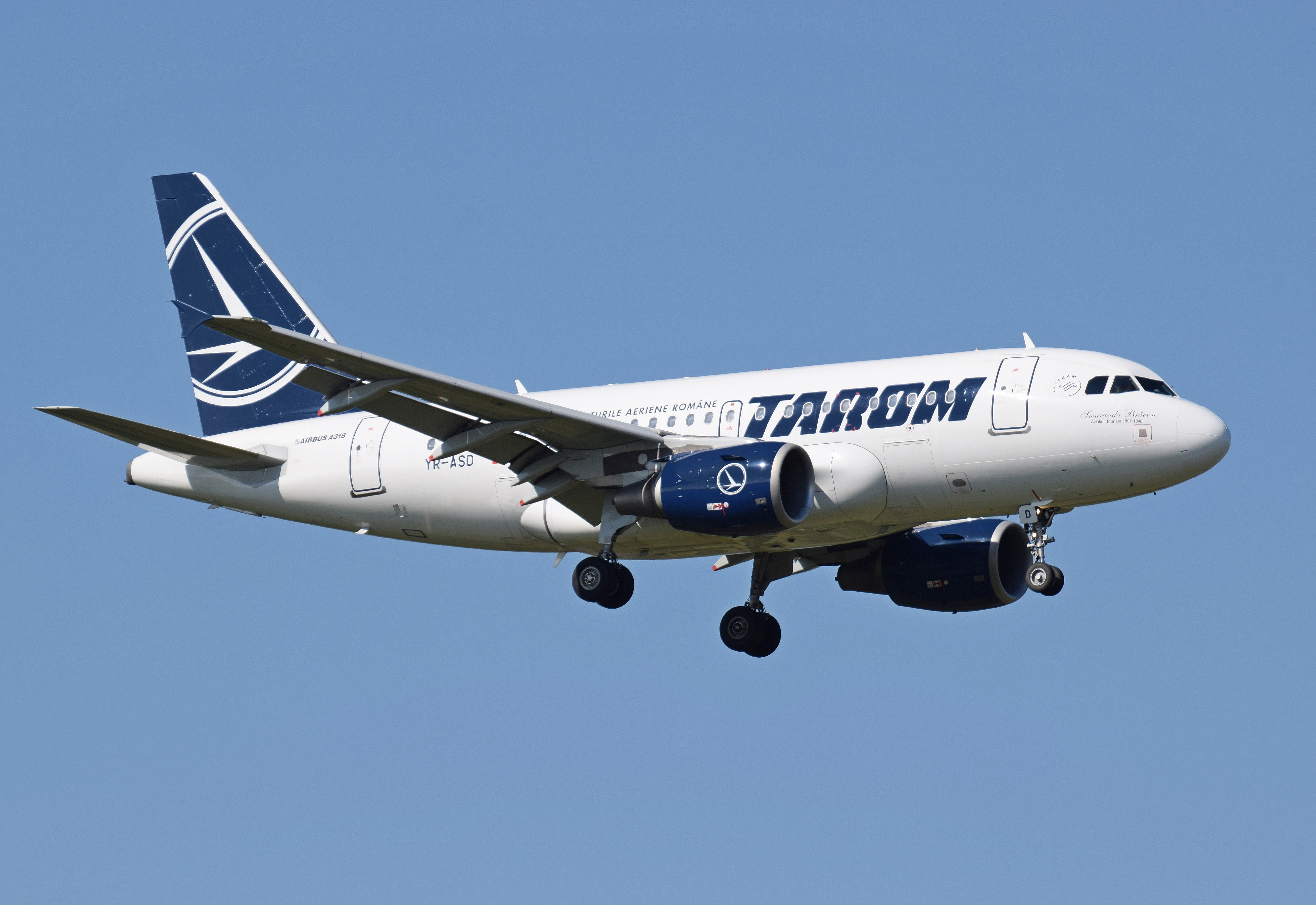 TAROM Airbus A318-100 (YR-ASD) arrives London Heathrow Airport, England.